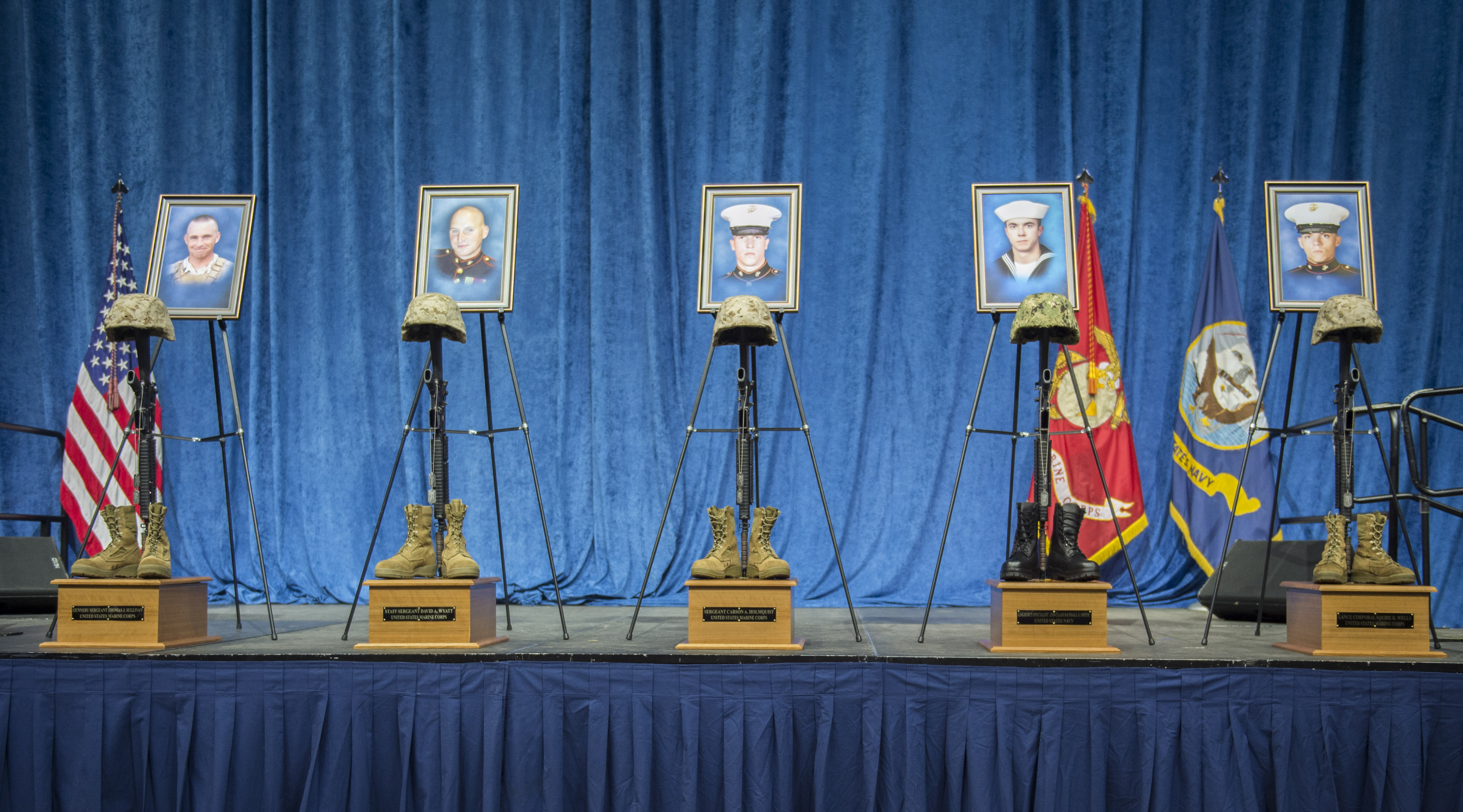 CHATTANOOGA, Tenn. (Aug. 15, 2015) Battle crosses for fallen service members on stage during the memorial at McKenzie Arena at the University of Tennessee Chattanooga. The memorial honored the four Marines and one Sailor who died in the Navy Operational Support Center Chattanooga shooting July 16. (U.S. Navy photo by Mass Communication Specialist 2nd Class Justin Wolpert/Released) 150815-N-VC599-003 Join the conversation: navylive.dodlive.mil